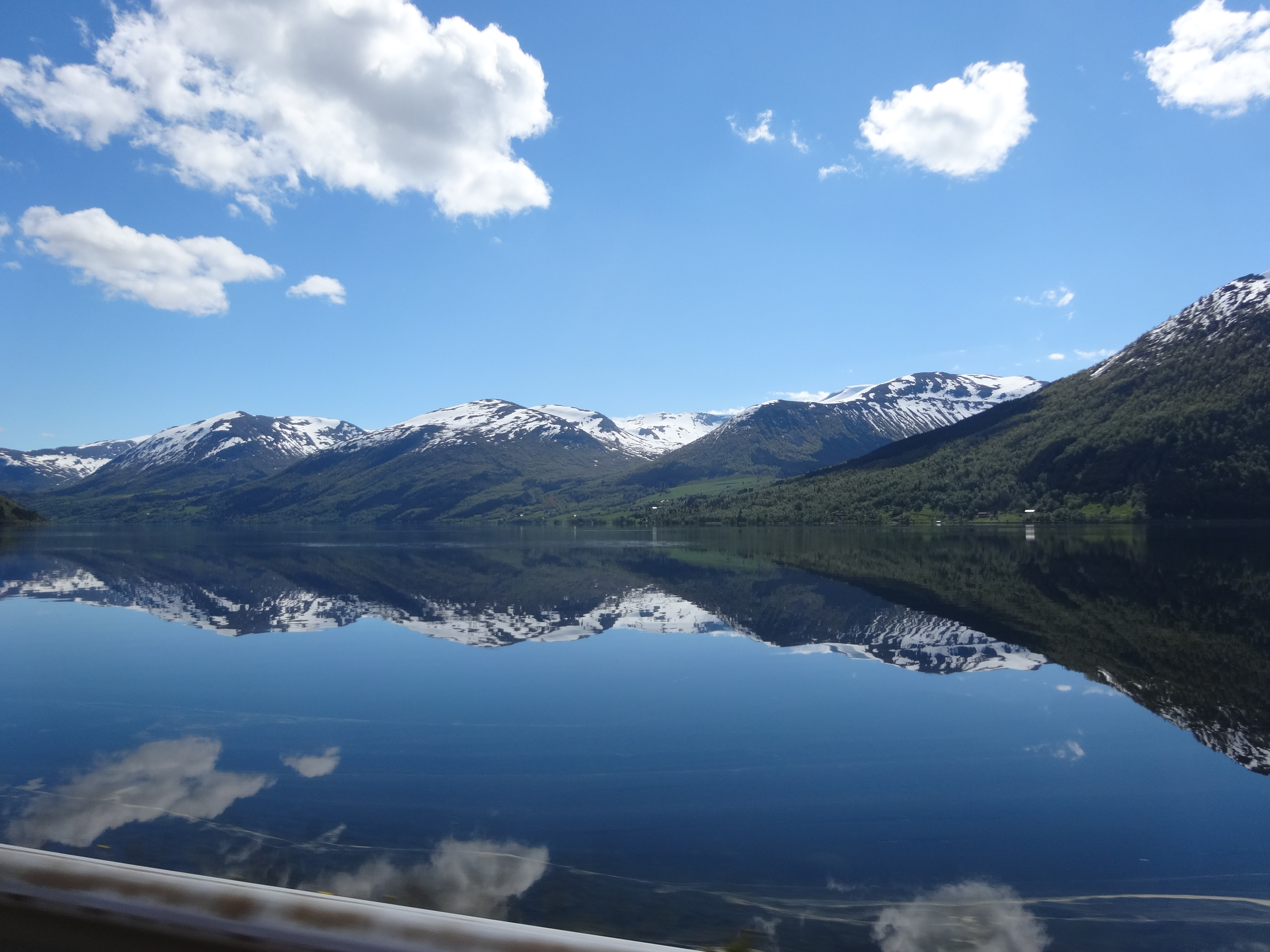 View over the Jølstravatnet